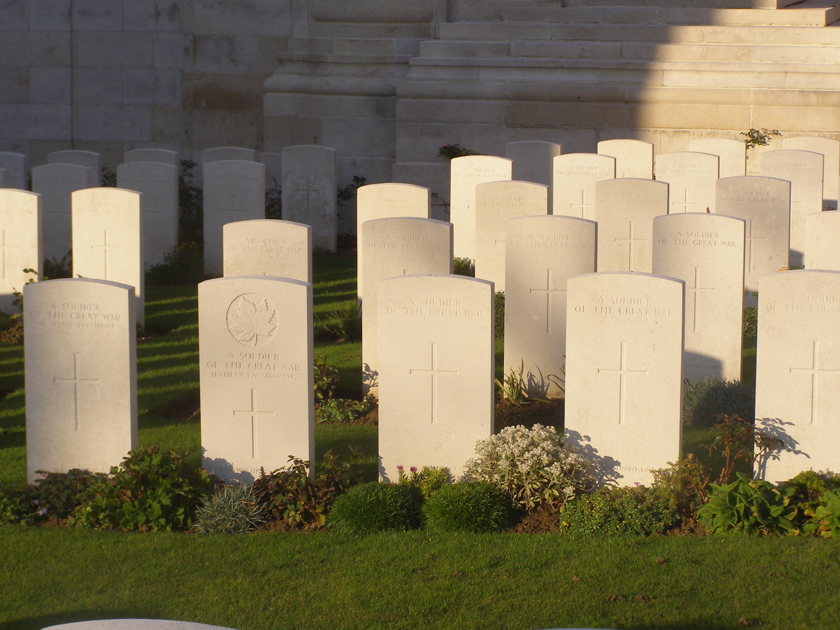 Graves at the Vis en Artois British Cemetery, France (Commonwealth War Graves Commission)